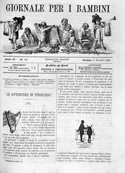 First page of Giornale per i bambini (Newspaper for children) with Pinocchio by Carlo Collodi, 21 dicembre 1882